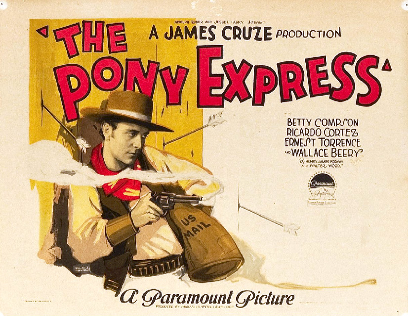 Lobby card for the 1925 film The Pony Express. There are no copyright marks on the item. At lower left is Country of origin USA. At lower right is This lobby display leased from Paramount Famous Players Lasky Corp.